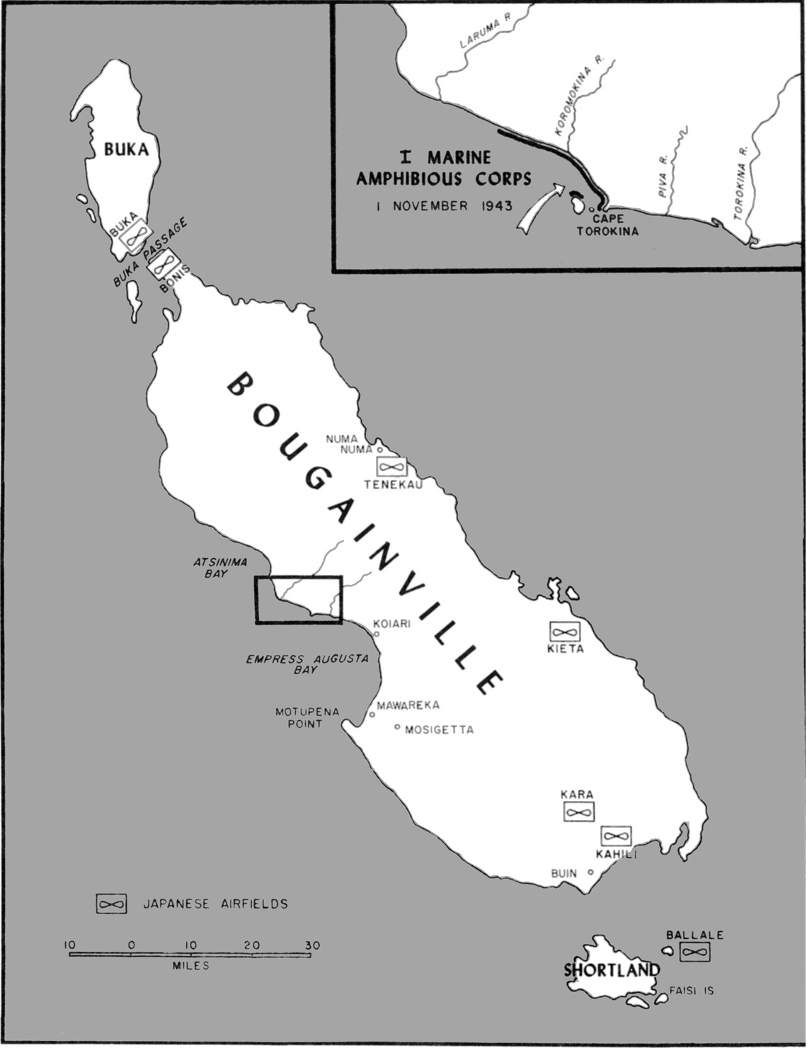 Map of Bougainville Island showing the US Marine landing zone around Cape Torokina (in Empress Augusta Bay), as well as the location of Japanese bases around the island